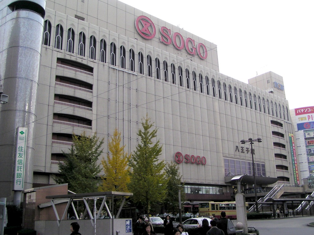 North exit of Hachiōji Station